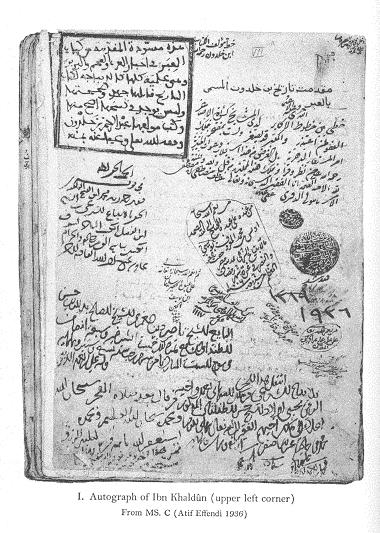 Ibn khaldun writting